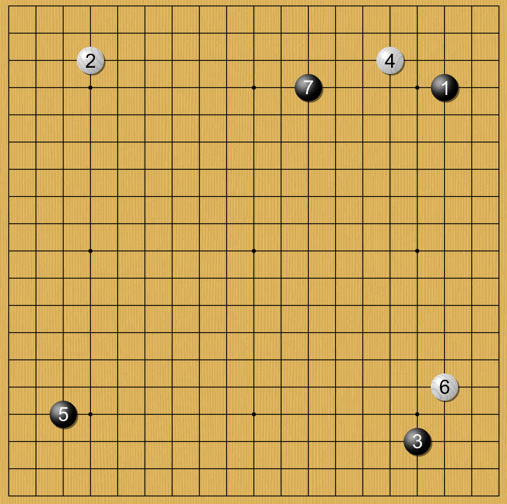 Modern usage of Shusaku fuseki